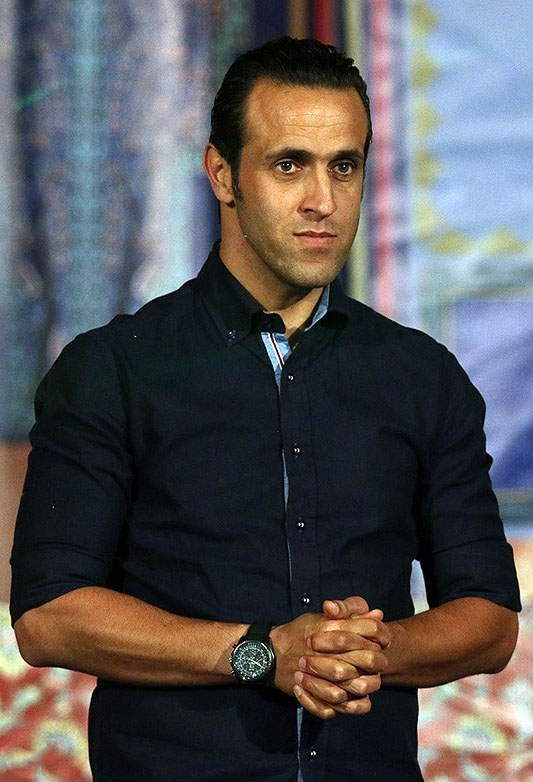 Ali Karimi in Mashhad